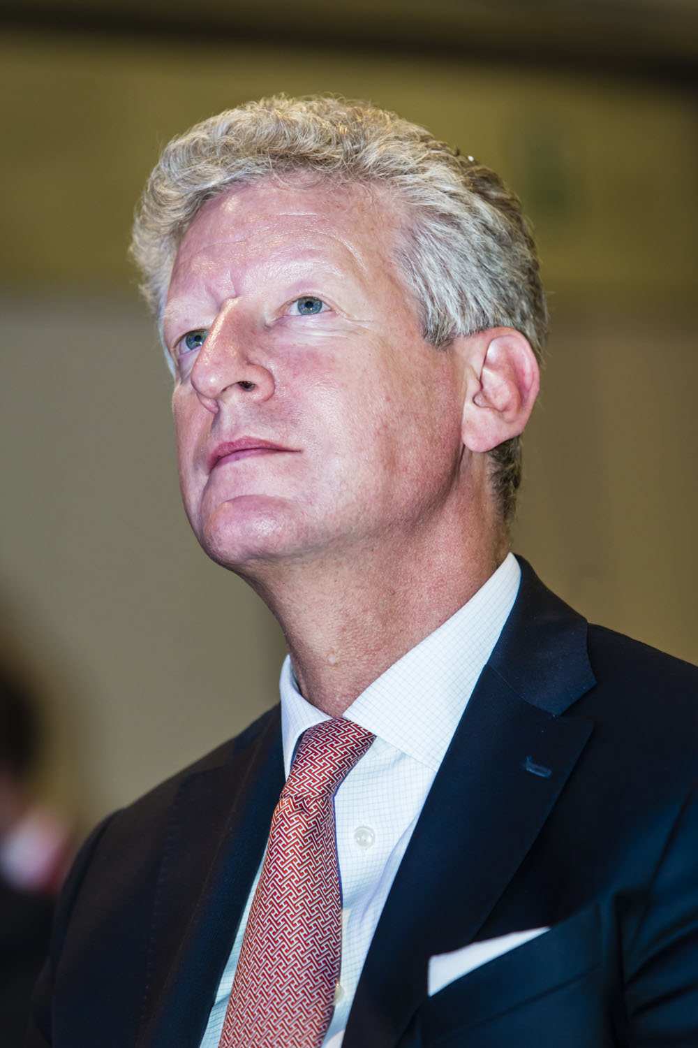 Pieter De Crem, Vice-Prime Minister, Minister of Defence, Belgium. Special session on European Defence Matters conference